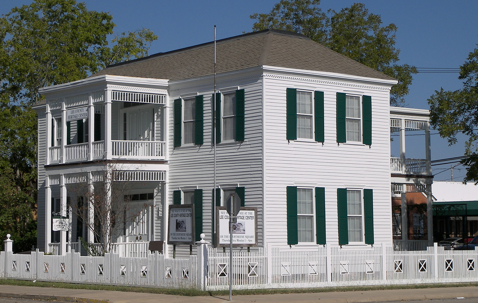 The Fletcher Home, also known as the Schubert House, located in Giddings, Texas, United States was built in 1879. The house was designated a Recorded Texas Historic Landmark in 1966 and listed on the National Register of Historic Places on August 25, 1970.